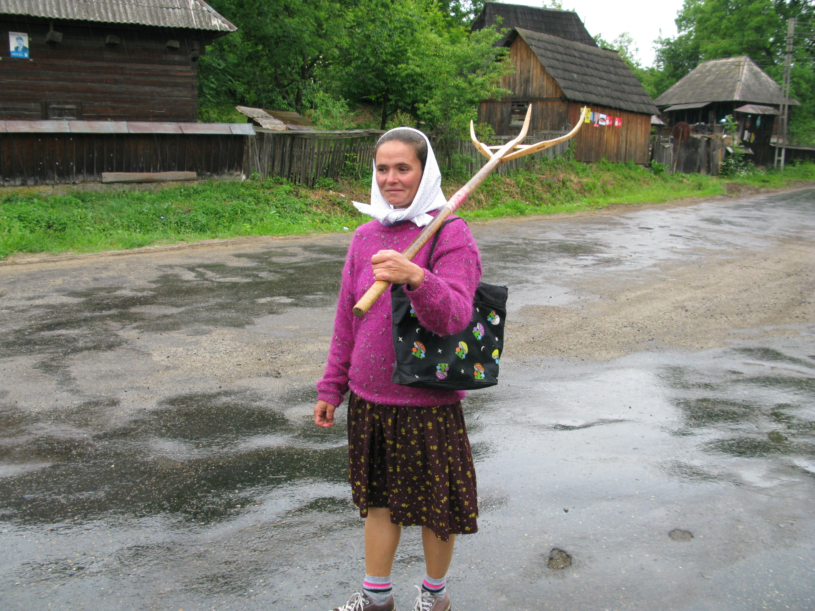 A peasant woman returning home from the field who have shouldered a wooden fork. In the background the houses in Călineşti in Maramureş Mountains (Inner Eastern Carpathians) in north of Rumania / EU.